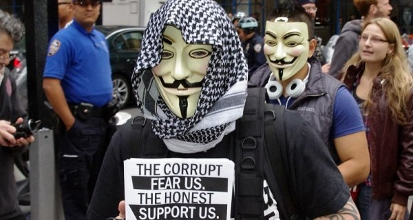 An Occupy Wall Street Protester wearing the signature mask of Anonymous.